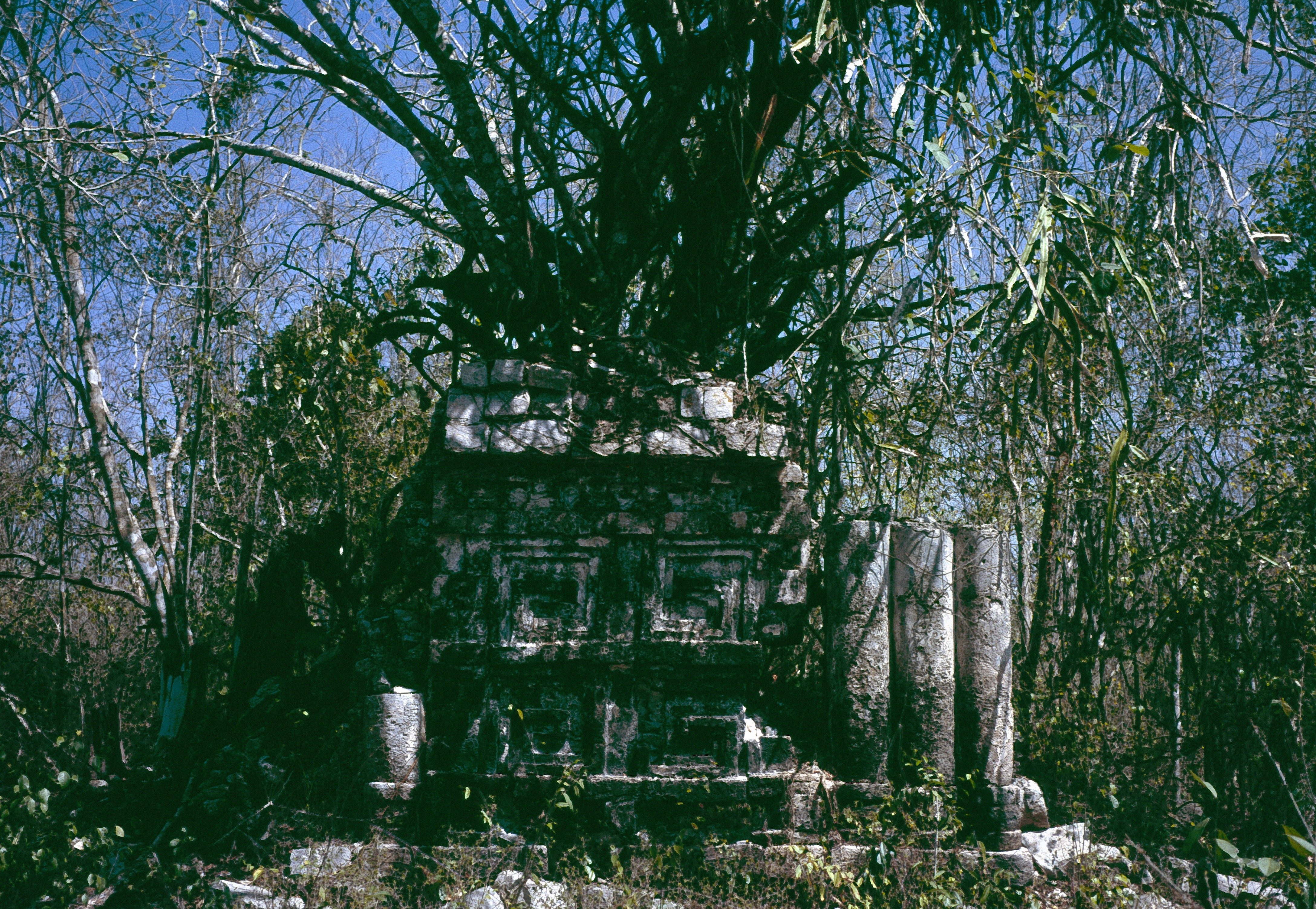 Xkichmnook, Yucatan, Mexico: Structure 4.